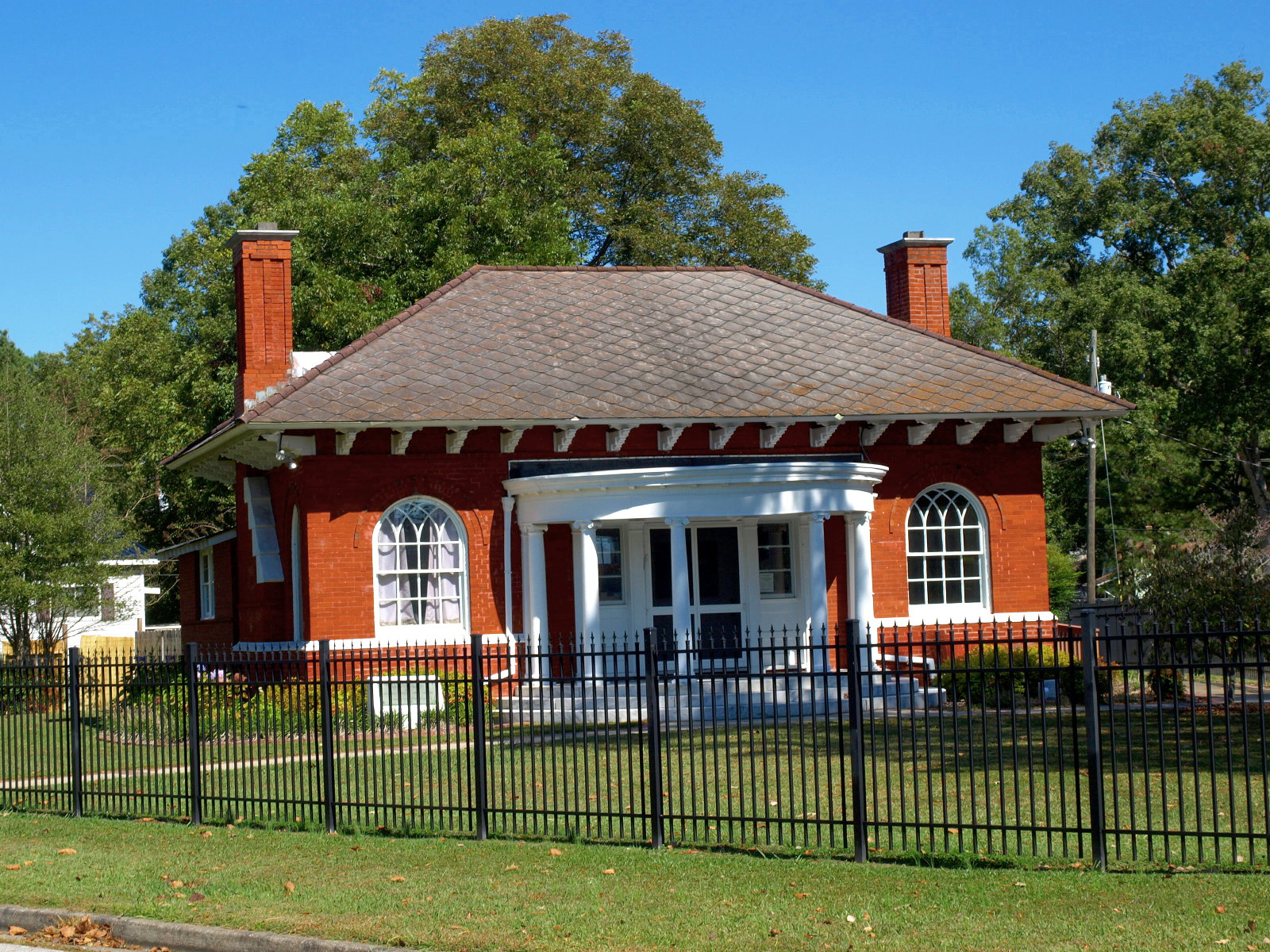 The Howard Gardner Nichols Memorial Library in Gadsden, Alabama, listed on the National Register of Historic Places